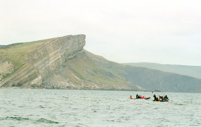 Worbarrow and Gad Cliff. An oblique view from the sea off Worbarrow Bay looking towards Kimmeridge. A dramatic illustration of the tough Portland and Purbeck beds capping the weaker shales below